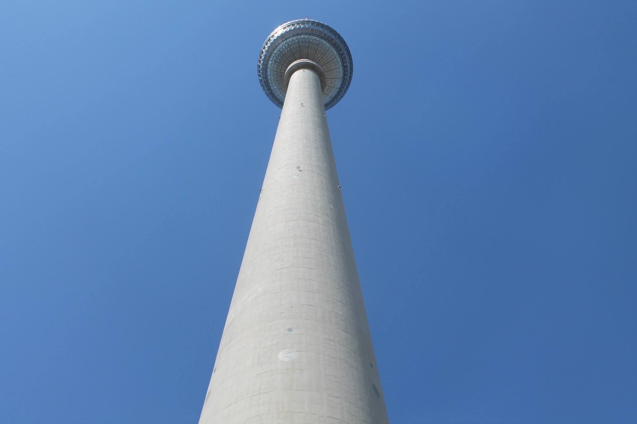 This is taken by me (Ocaso) in 2013. Free use